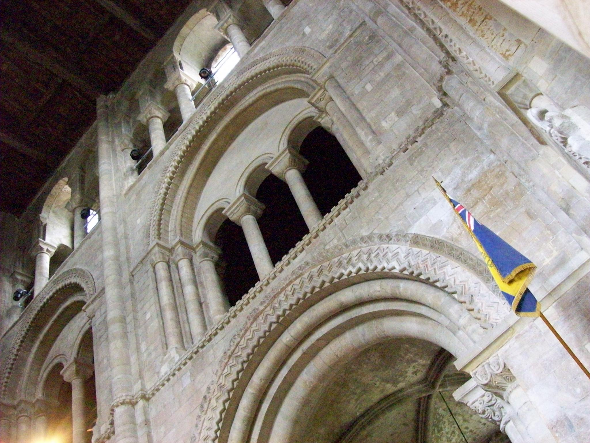 Romsey Abbey, South transept